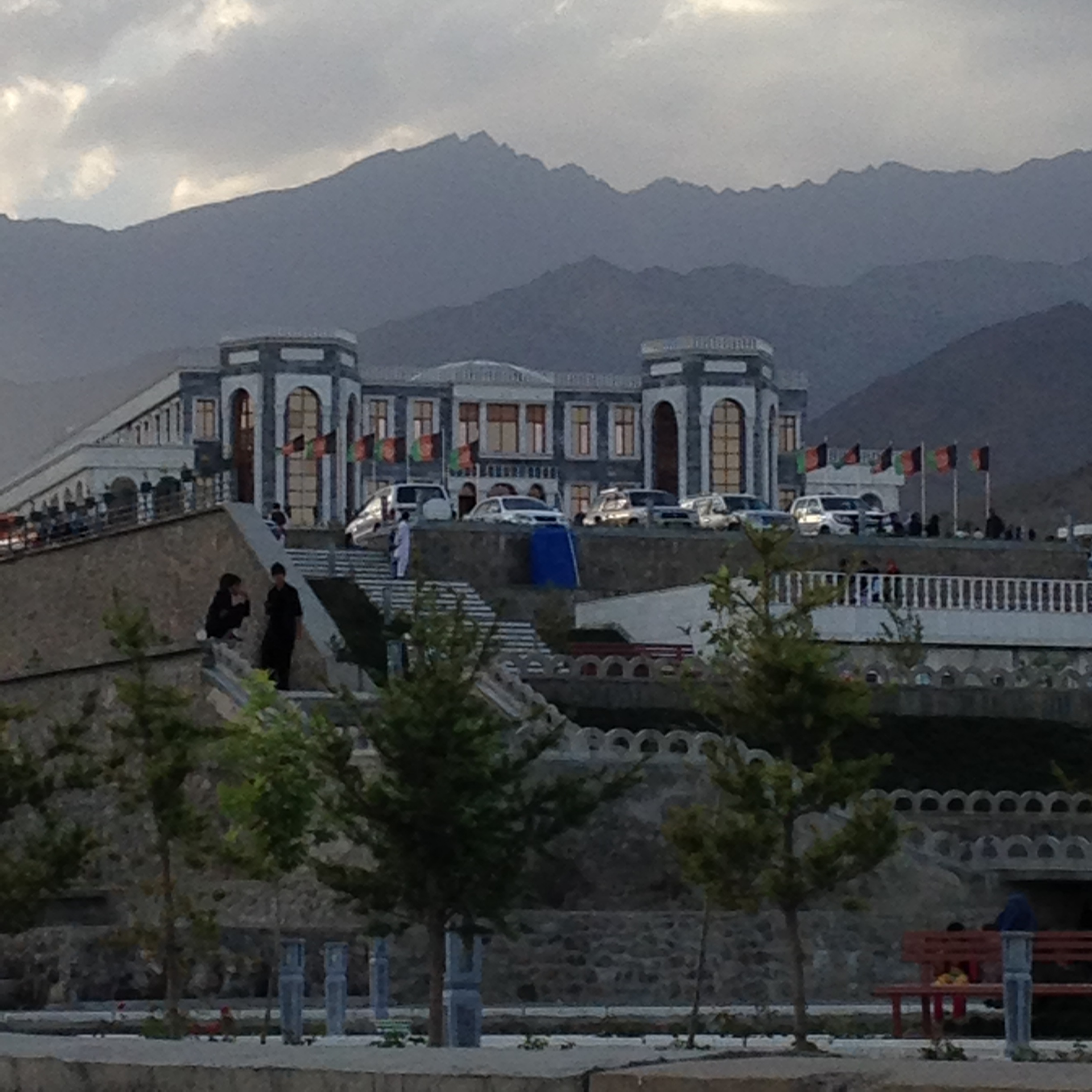 This is a photo of the Paghman Hill Castle in Afghanistan. A wonderful place and redesign of the King's Holiday destination. A beautiful place to visit